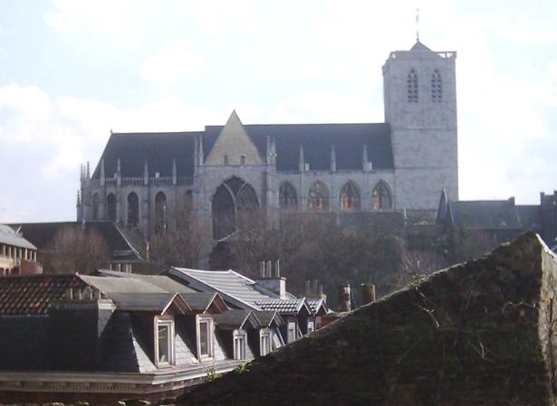 Personnal picture, I set it in Public Domain